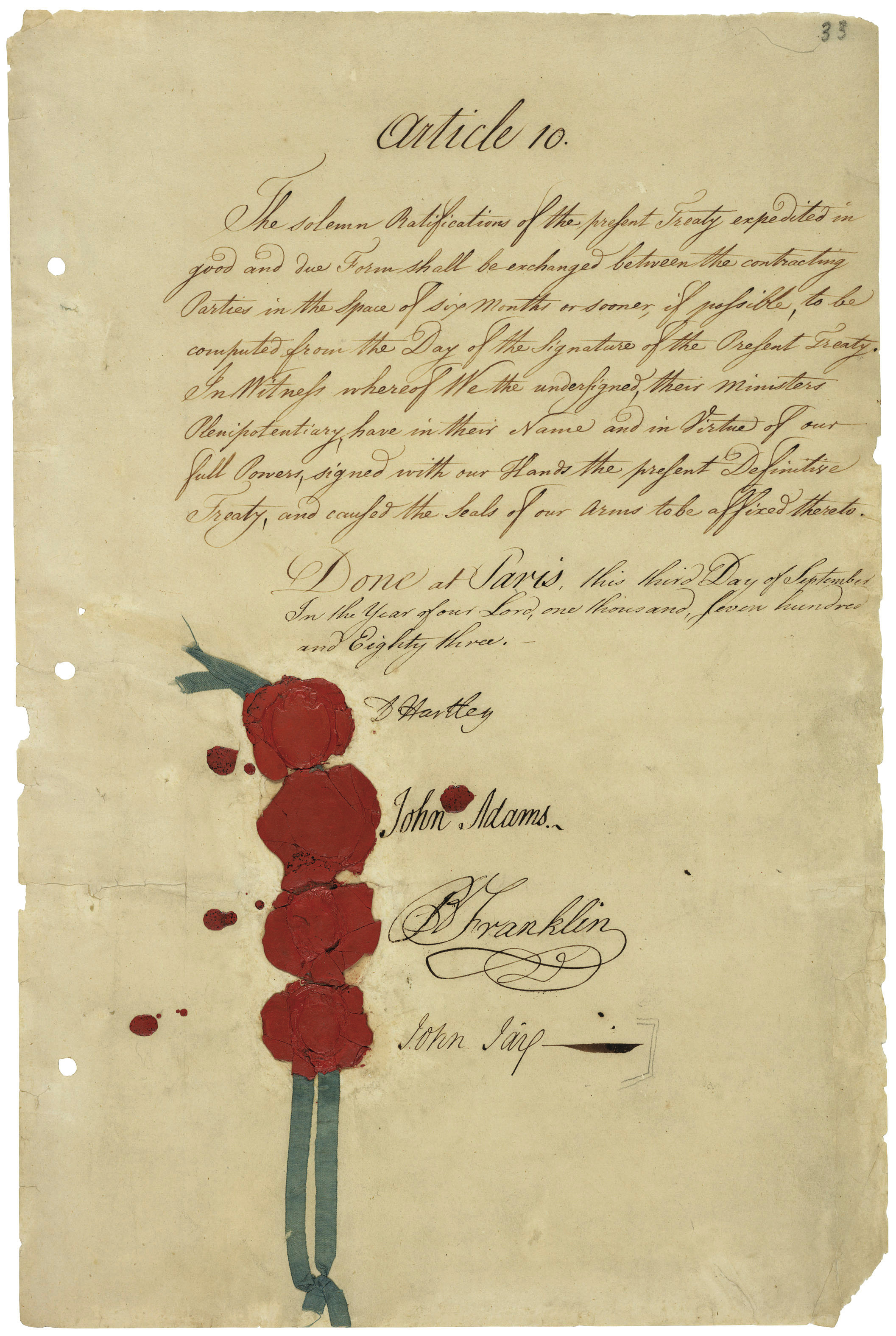 Last page of a draft of the 1783 Treaty of Paris, sealed with the signet rings of the four diplomats. David Hartley was the representative of the British King, and Benjamin Franklin, John Jay, and John Adams represented the United States. In these days, diplomats could use their family seals on drafts, while today they would be initialed and, and only after being ratified sealed with the Great Seal of the United States.